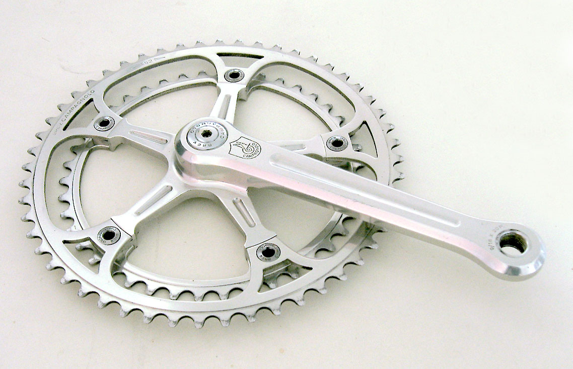 Picture of Campagnolo Super Record crankset, made in 1981.